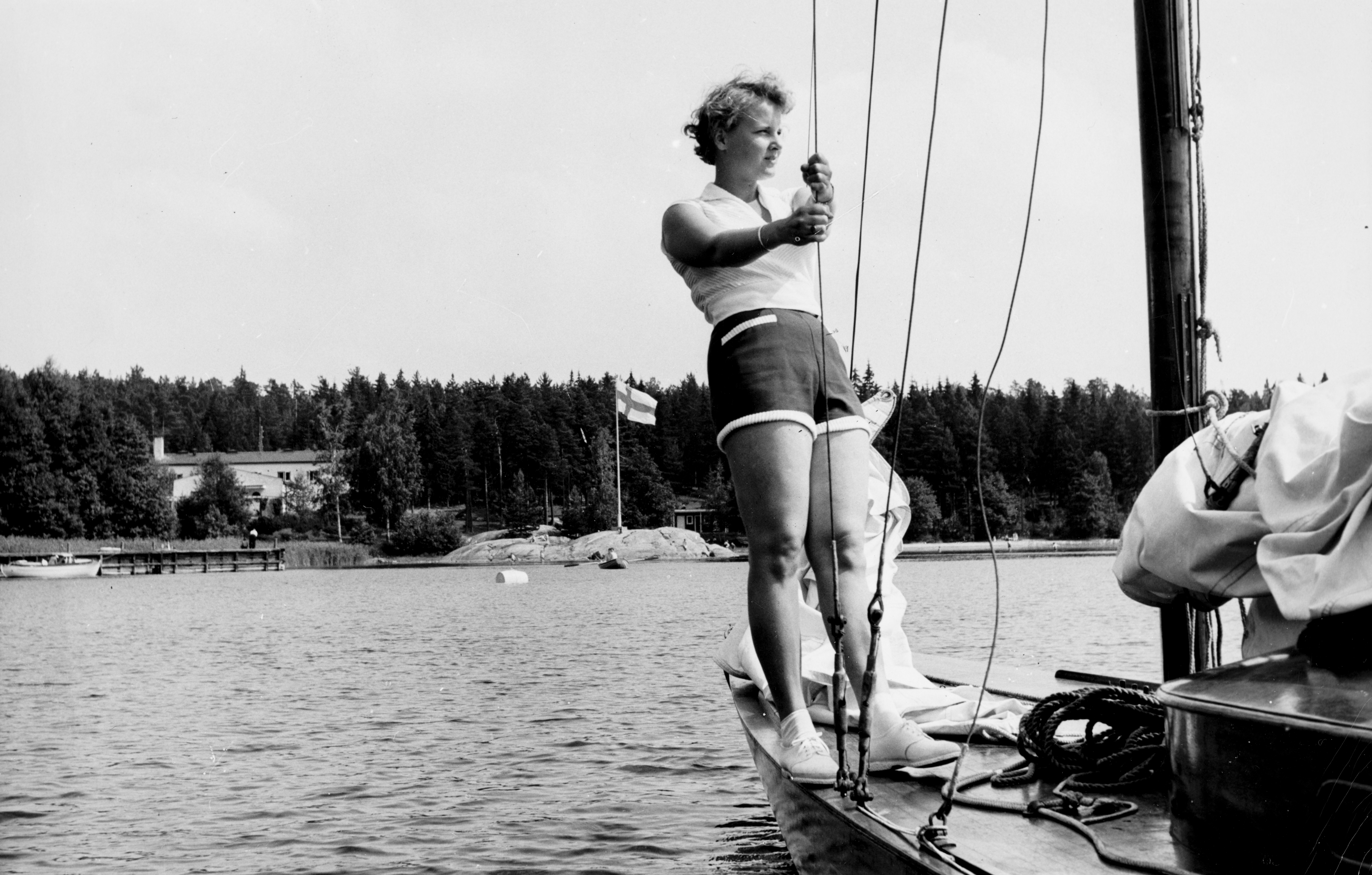 1950-luku/50's, Airisto silver gelatin print / hopeagelatiinivedos The Finnish Museum of Photography / Suomen valokuvataiteen museo Contact / Ota yhteyttä